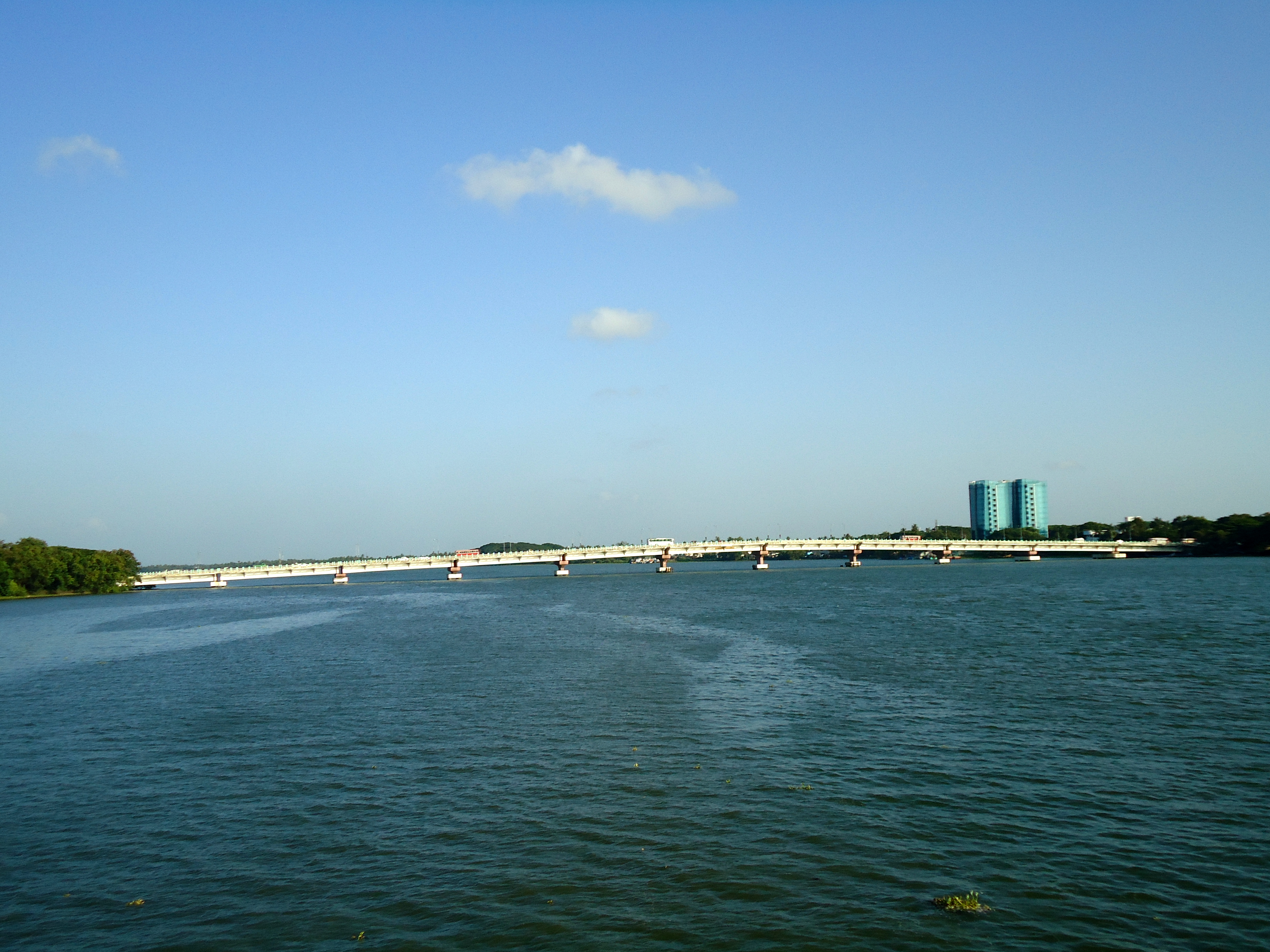 New Mattancherry Bridge. A View from Old Bridge.